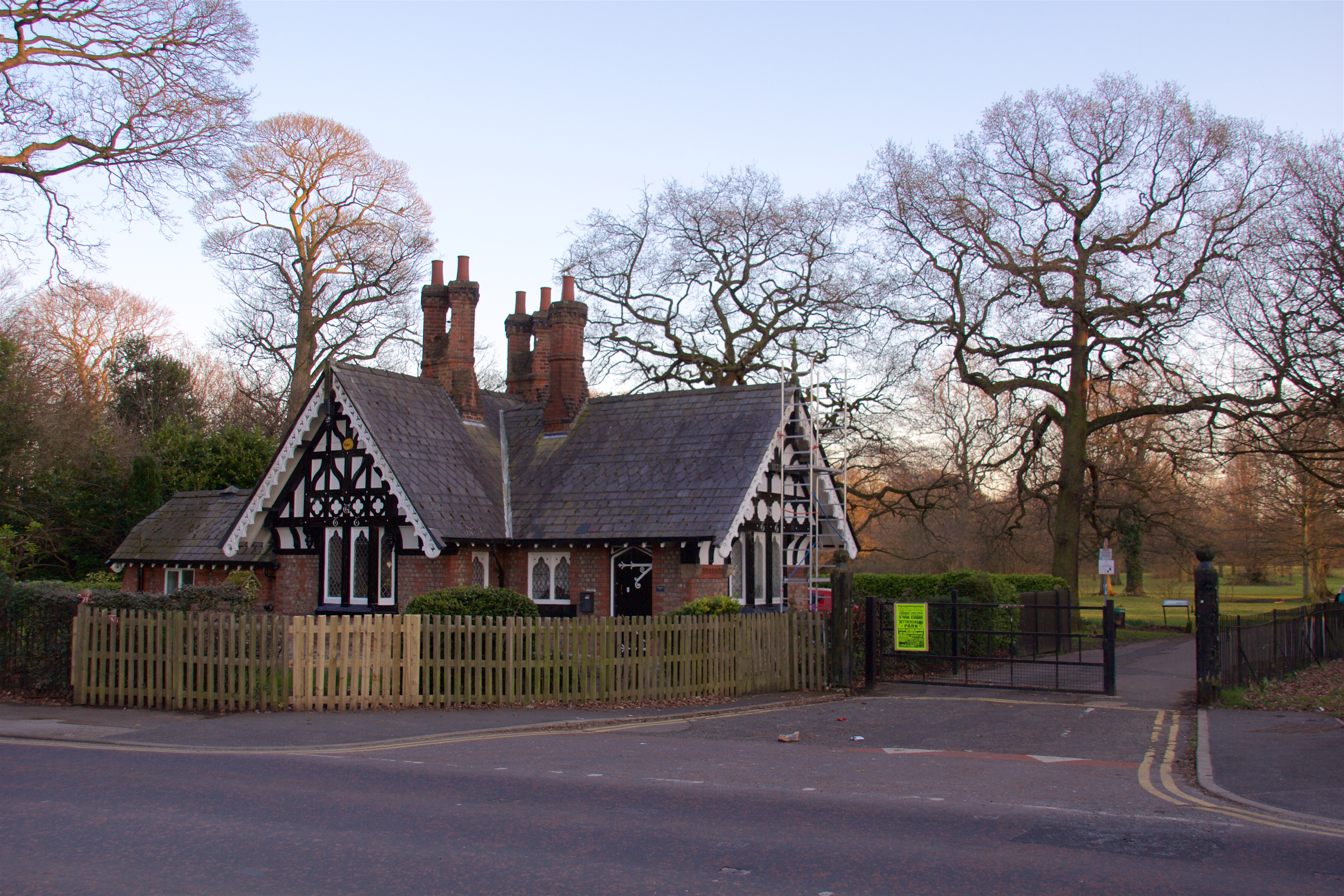 North Lodge, Wythenshawe Park, UK, March 2016.